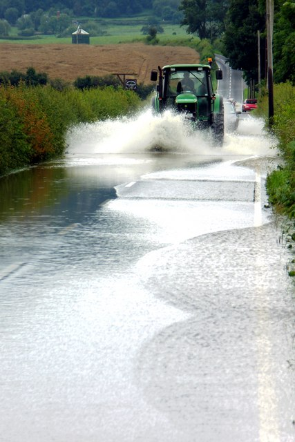 That's the way to do it! A John Deere tractor easily negotiates a flooded section of the B4388. Summer 2007 saw several extreme rain events.